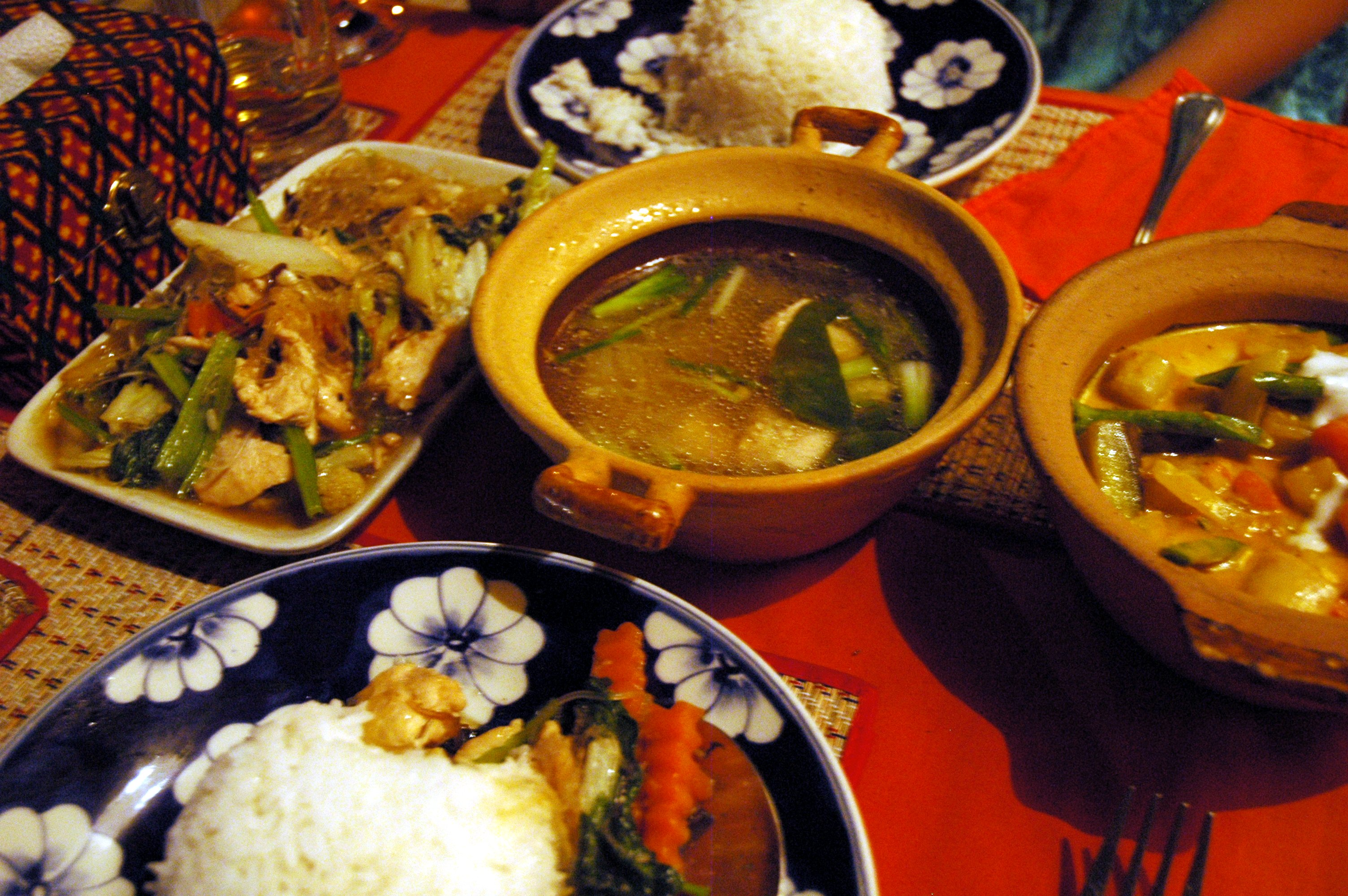 Meal at Khmer Family, Pub St.